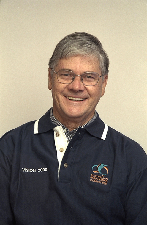 Portrait of Australian sailor Noel Robins, 2000 Australian Paralympic Team athlete